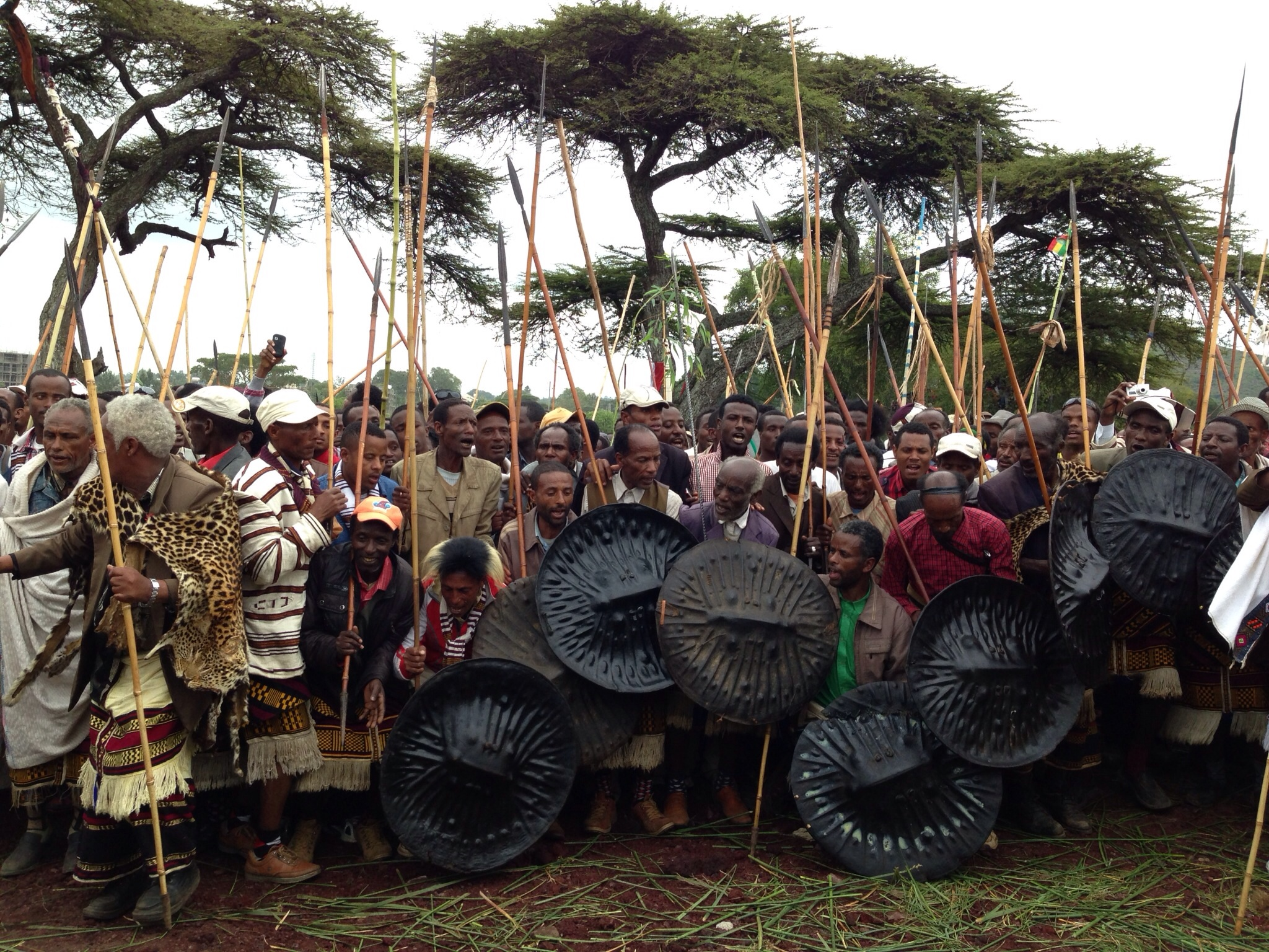 Fichchee: The New Year of Sidama. The Sidama people celebrate the festival en mass in their sacred place called Gudumale which is located on the beautiful city of Hawassa.